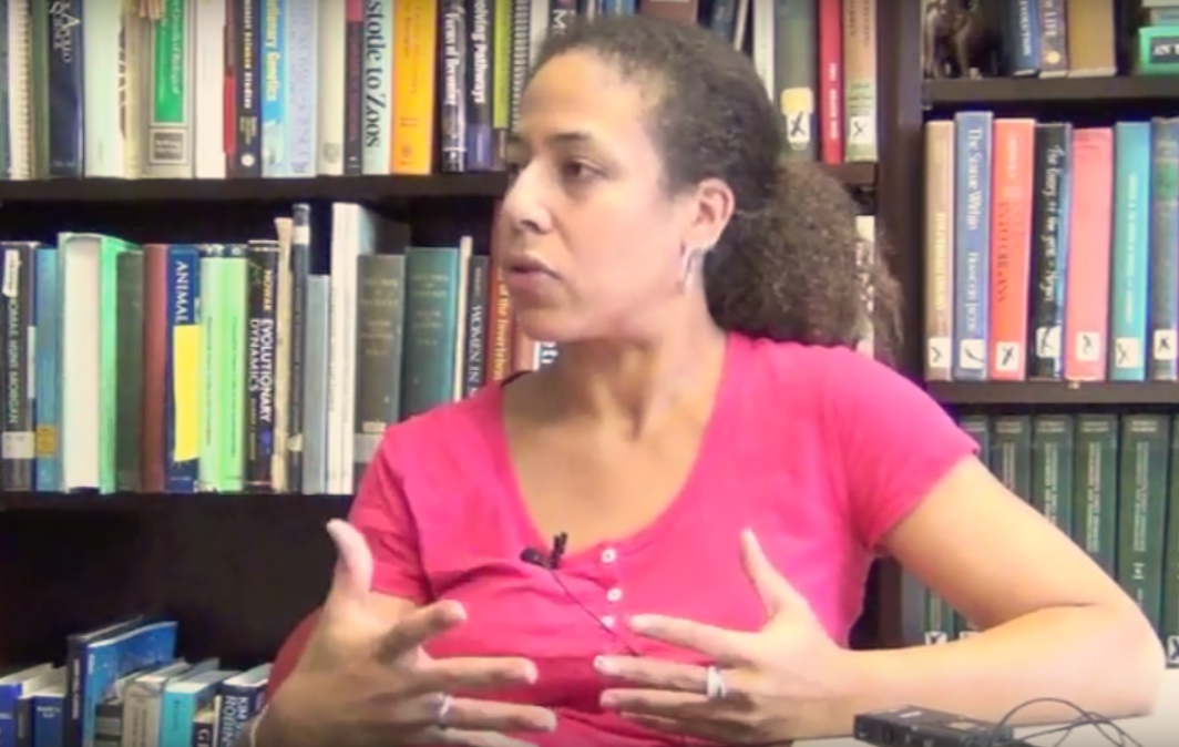 Cassandra Extavour being interviewed by Marine Biological Laboratory